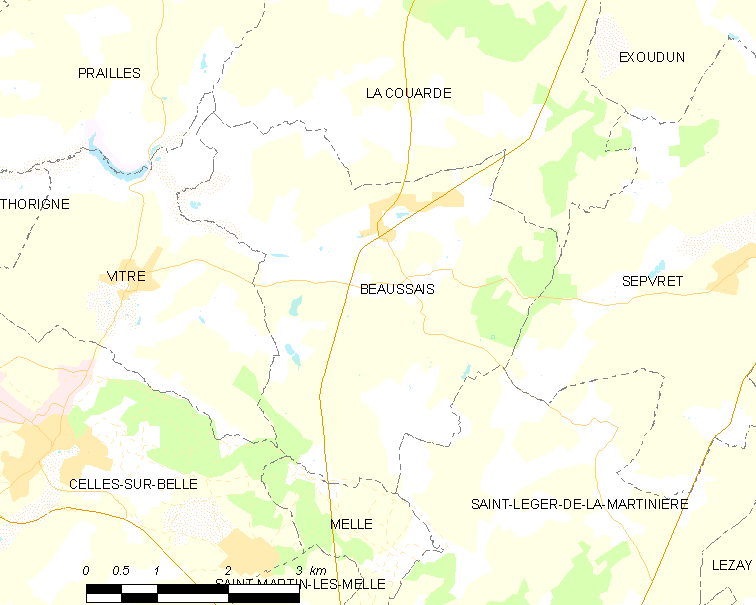 Map of French municipality Beaussais